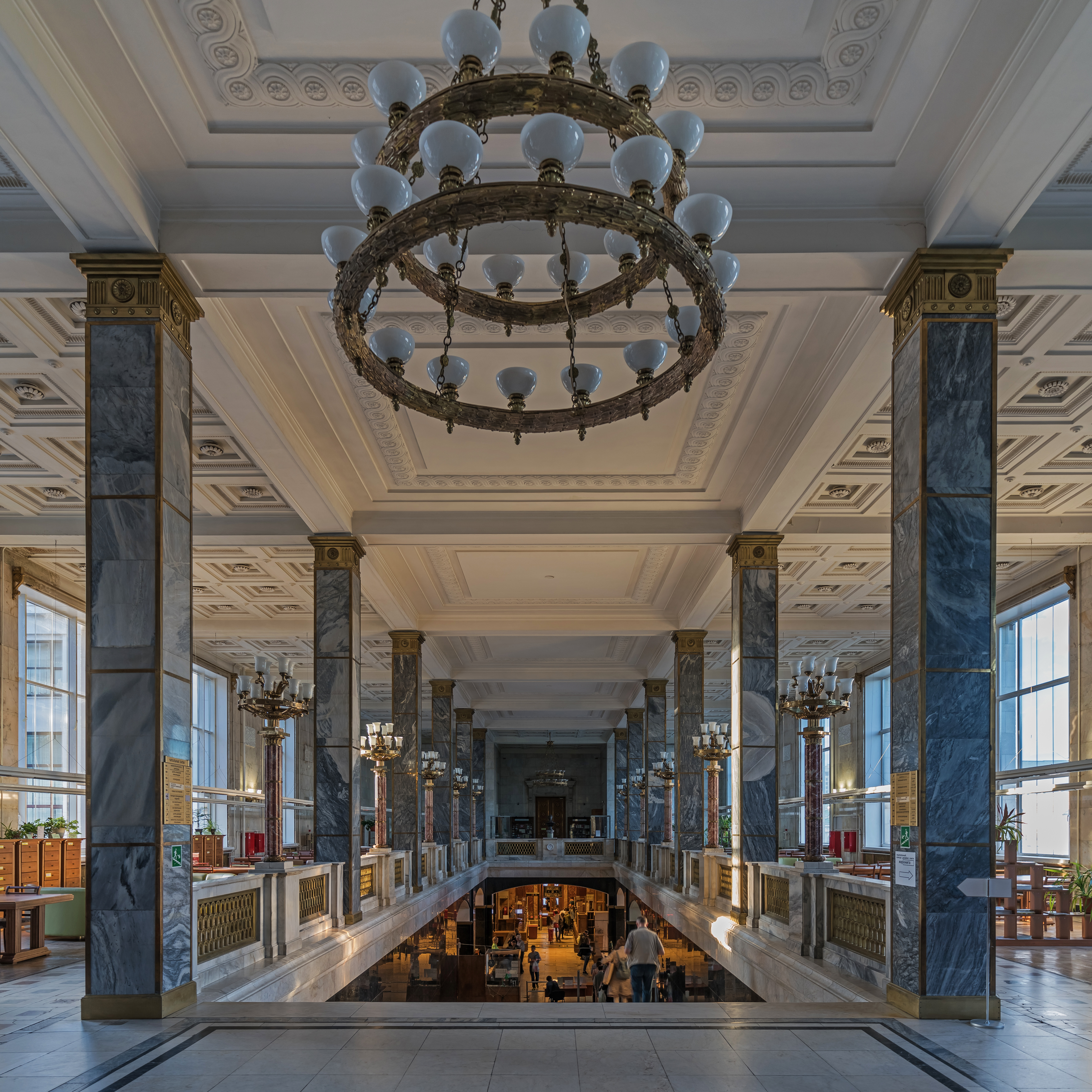 Interior of the main building of Russian State Library in Moscow, Russia